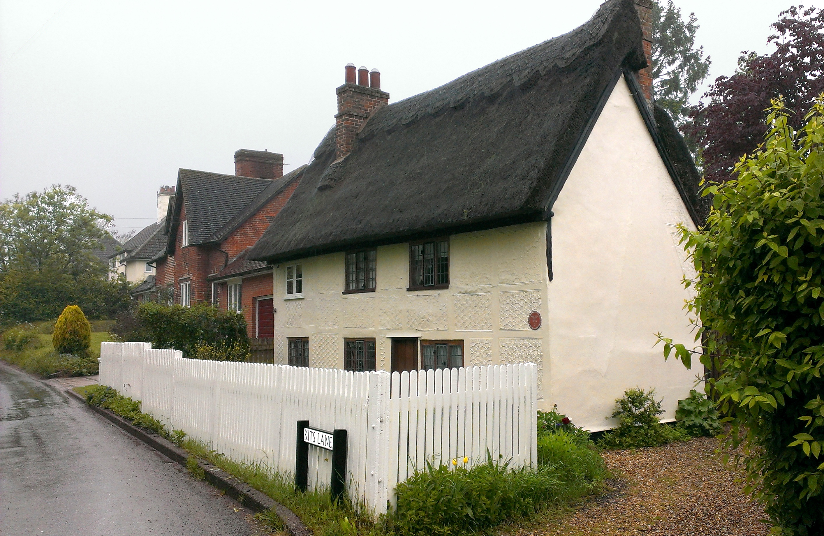 No 2 Kits Lane, Wallington, Hertfordshire, England. George Orwell residence circa 1936-1940.